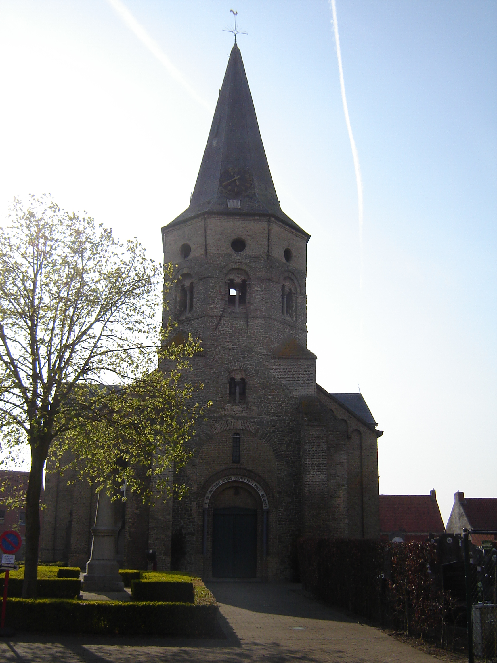 Church of Saint Gertrude. Bovekerke, Koekelare, West-Flanders, Belgium